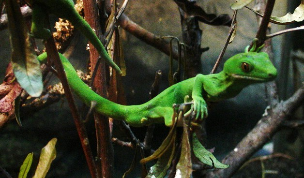 Northland green gecko